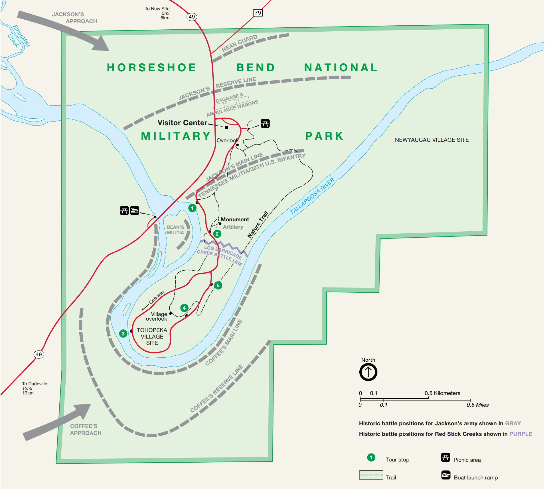 Map of Horseshoe Bend National Military Park originally listed at